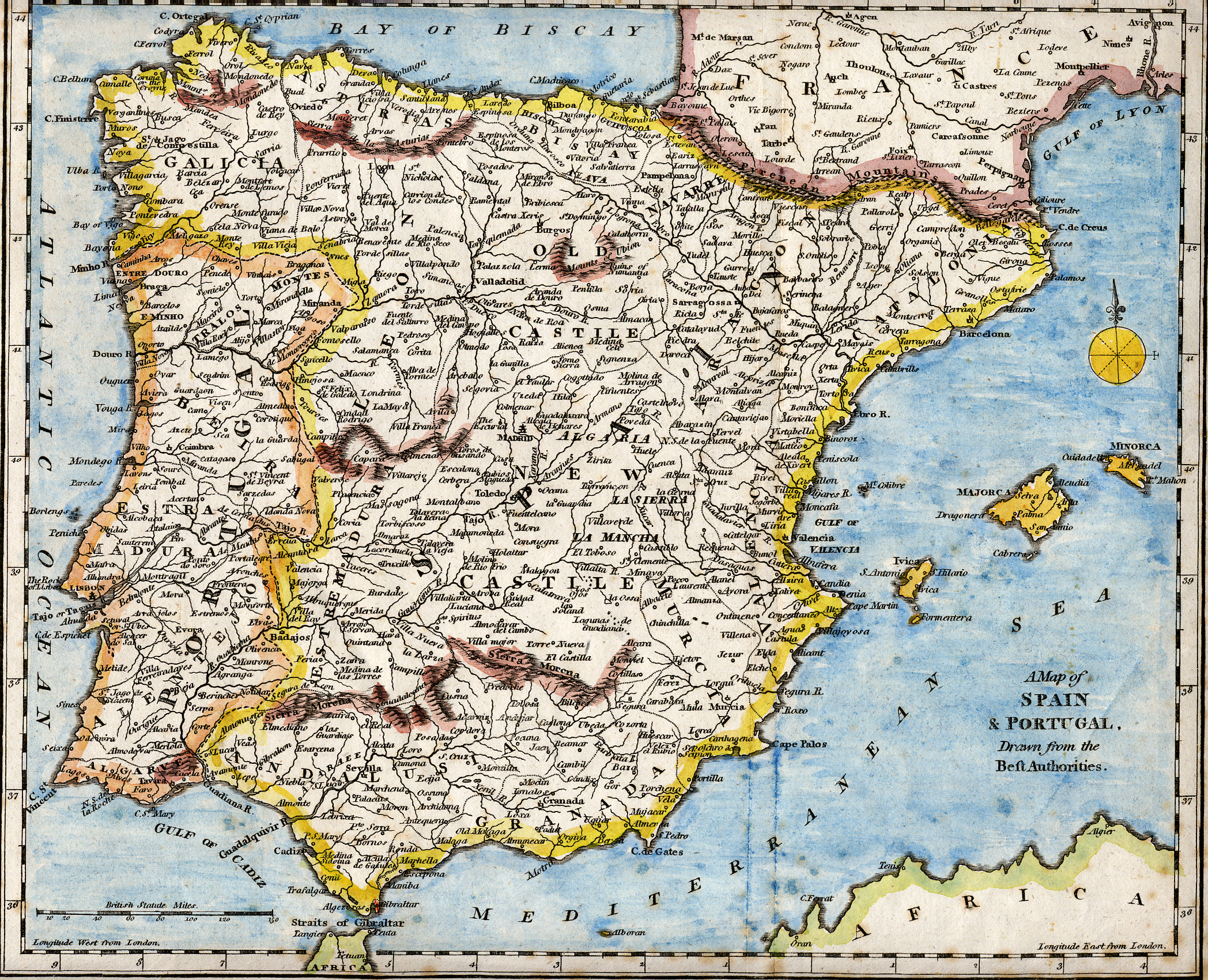 18th century hand-coloured engraved map of the Iberian peninsula depicting various topographical features of the land, as published in Robert Wilkinson's General Atlas, circa 1794. (Volume 2., page 666.) Titl'd A Map of Spain & Portugal, Drawn from the Beſt Authorities